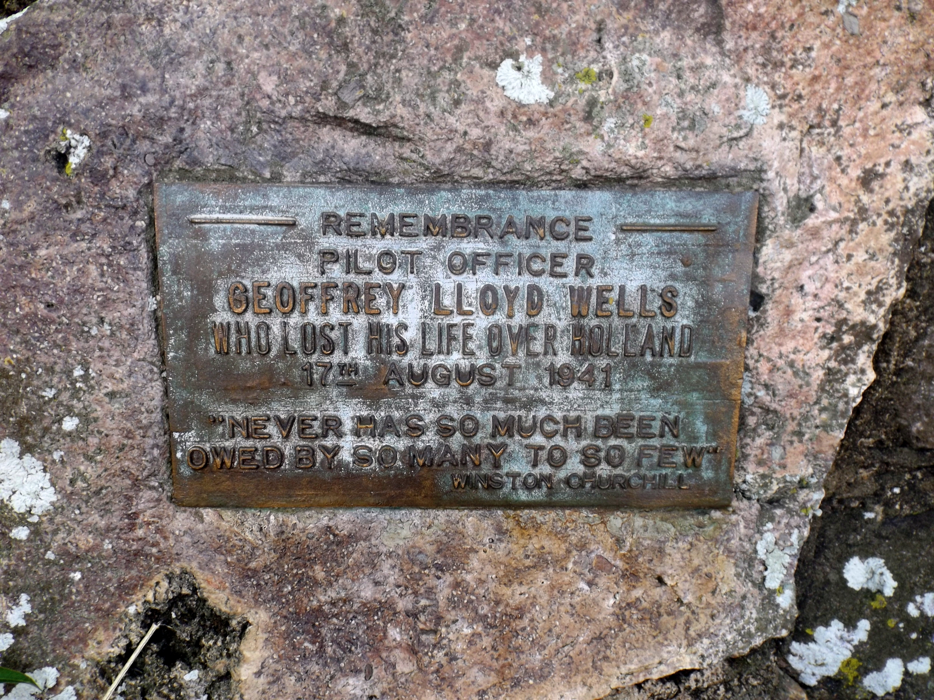 Photo of Pilot Officer Geoffrey Lloyd Wells Memorial Seat plaque at Taringa, Brisbane, Queensland, Australia.